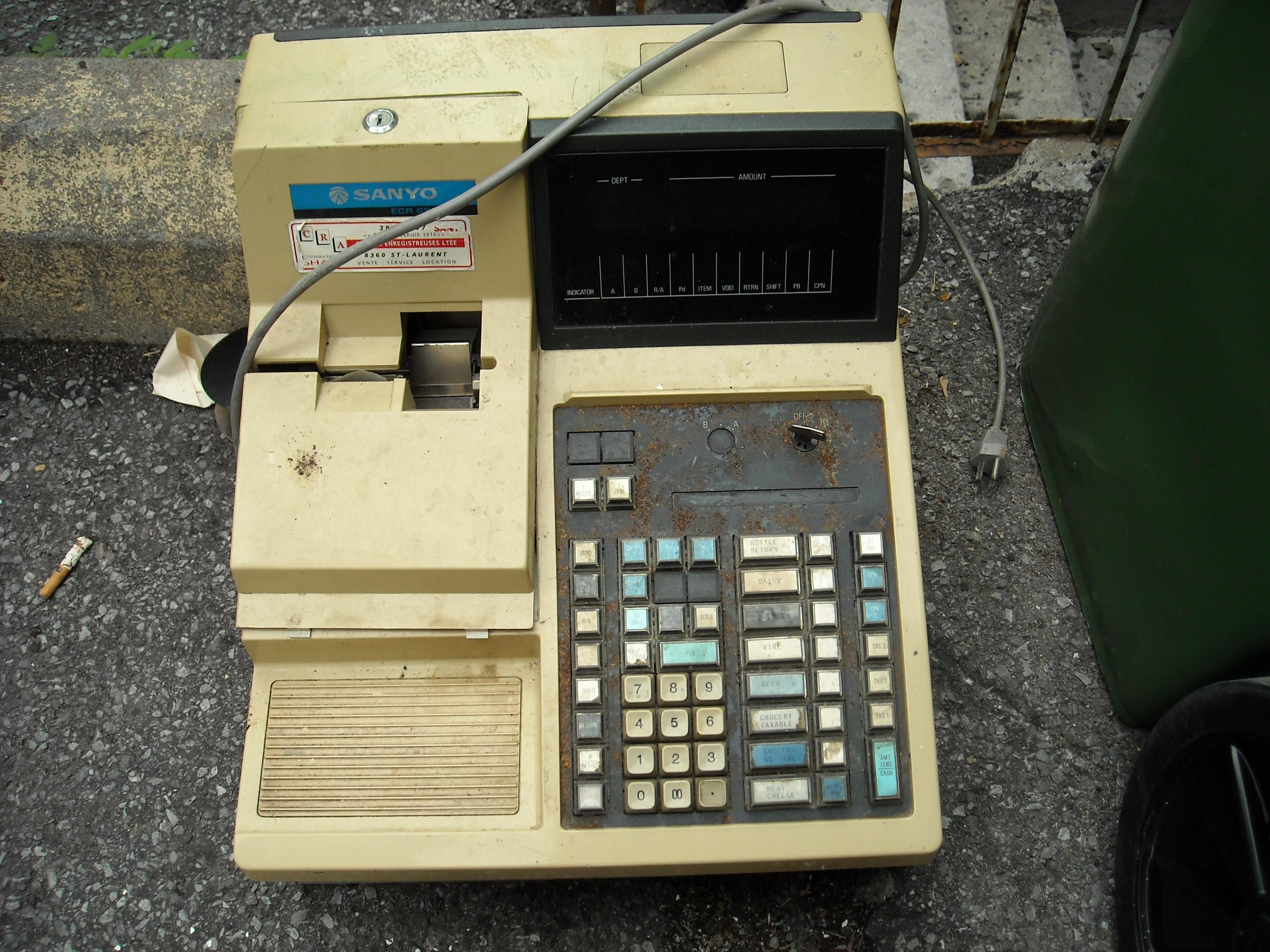 Image title: Old cash register Image from Public domain images website